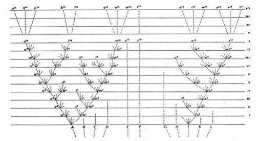 Darwin's tree of life